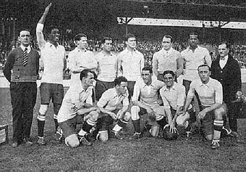 The Uruguay national football team that won the Olympic tournament in 1928. Fltr (standing): Píriz, Arremón, Arispe, Gestido, Mazali, Andrade; (bended): Nassazi, Scarone, Borjas, Cea, Figueroa.